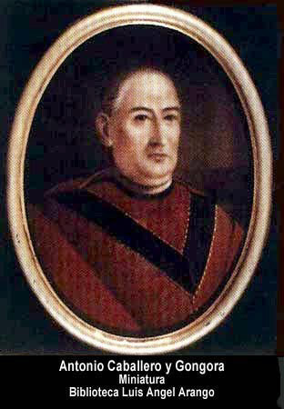 Small picture of Antonio Caballero y Góngora Viceking of Nueva Granada.